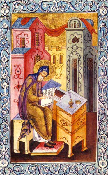 Isaac of Nineveh